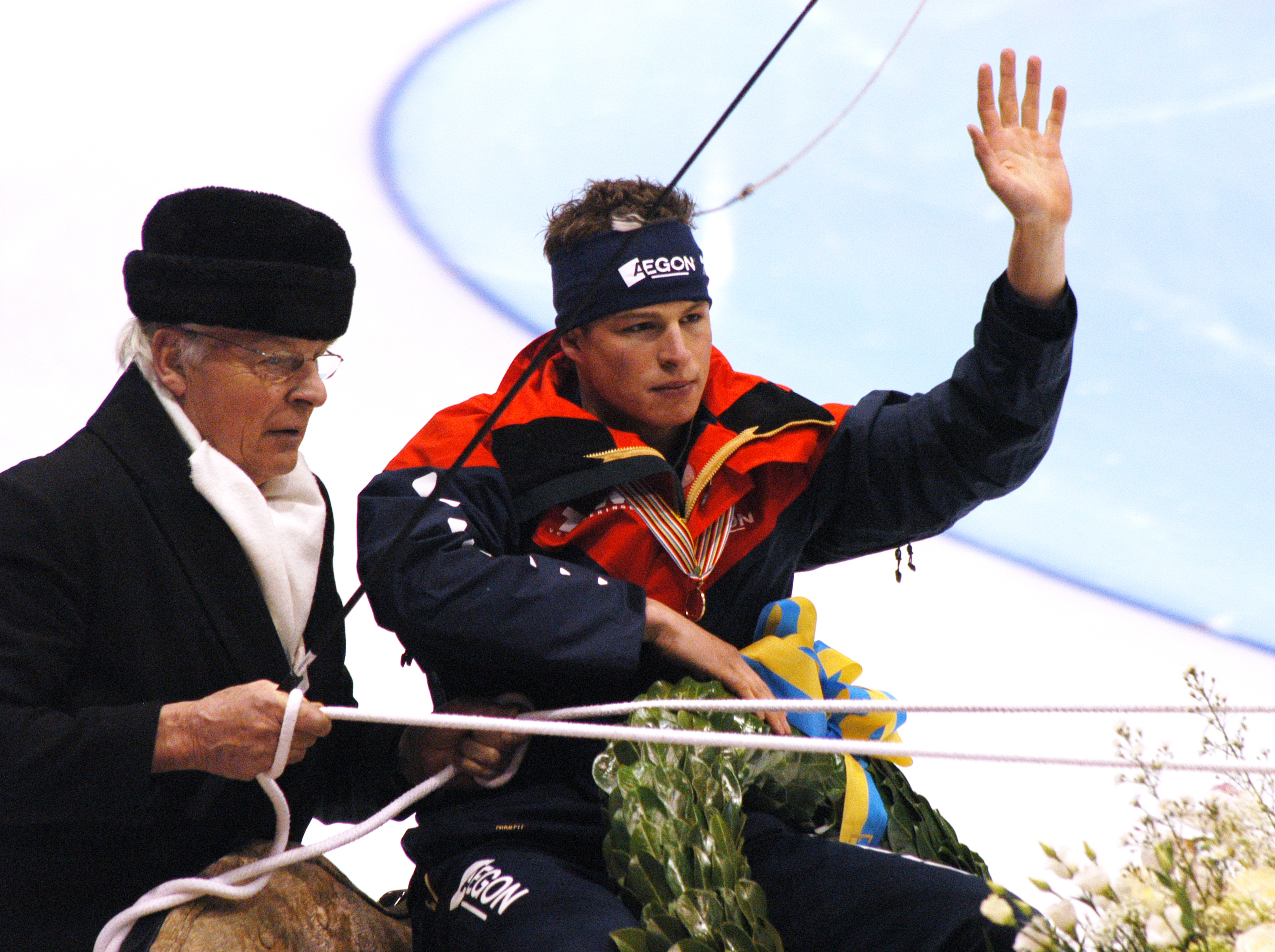 Sven Kramer (NED) in horse-drawn sleighs on ice after winning the European Allround Speed Skating Championship 2009 in Heerenveen, the Netherlands.